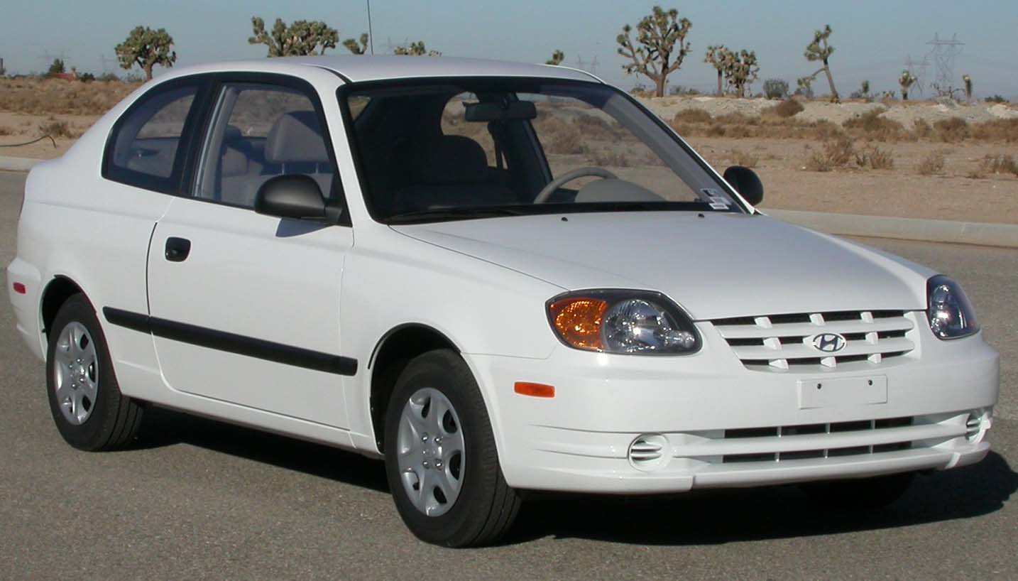 2004 Hyundai Accent photographed in USA.